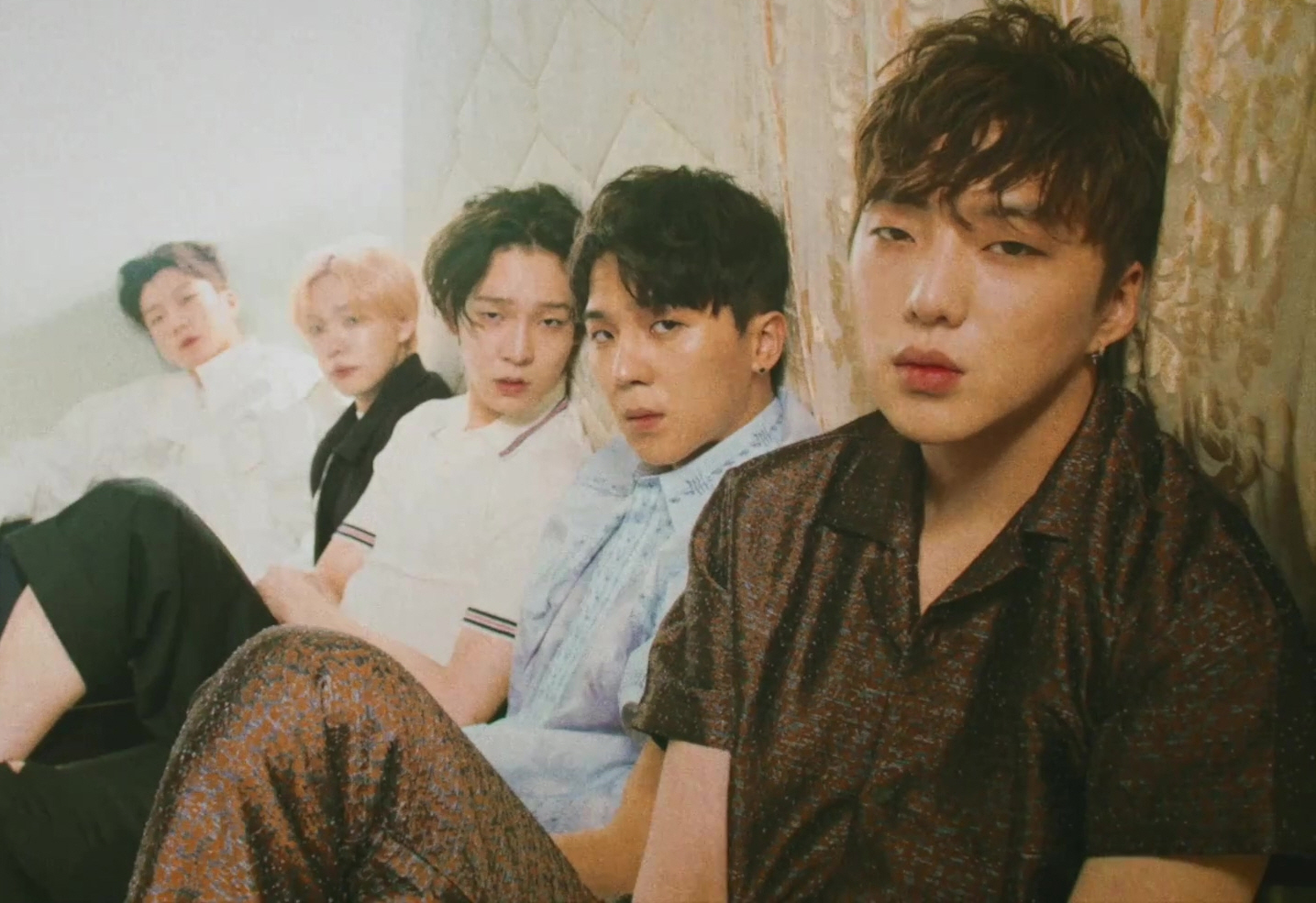 (Marie Claire Korea) Here Comes Winner